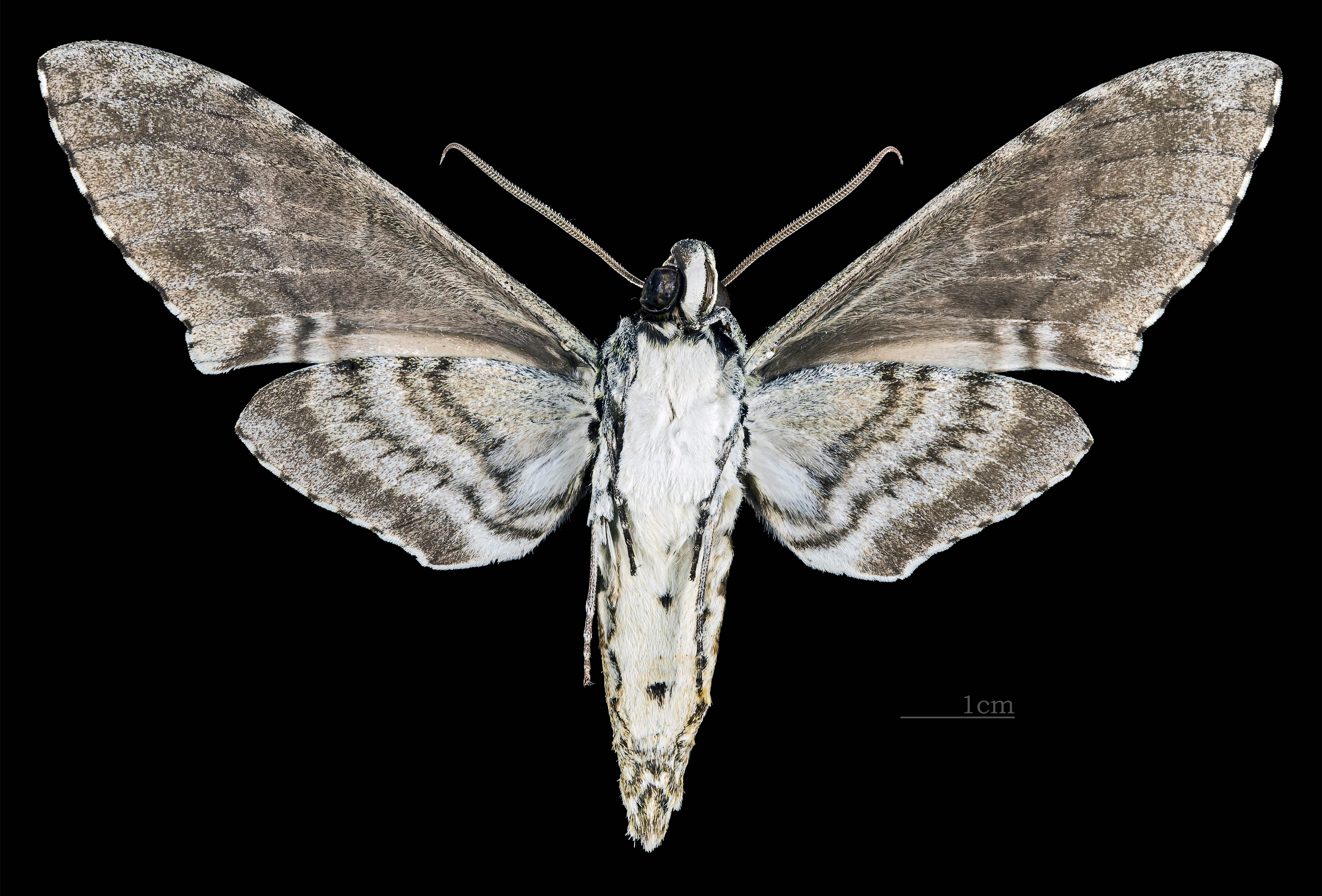 Manduca florestan - △ Ventral side Collection of the Mathematician Laurent Schwartz